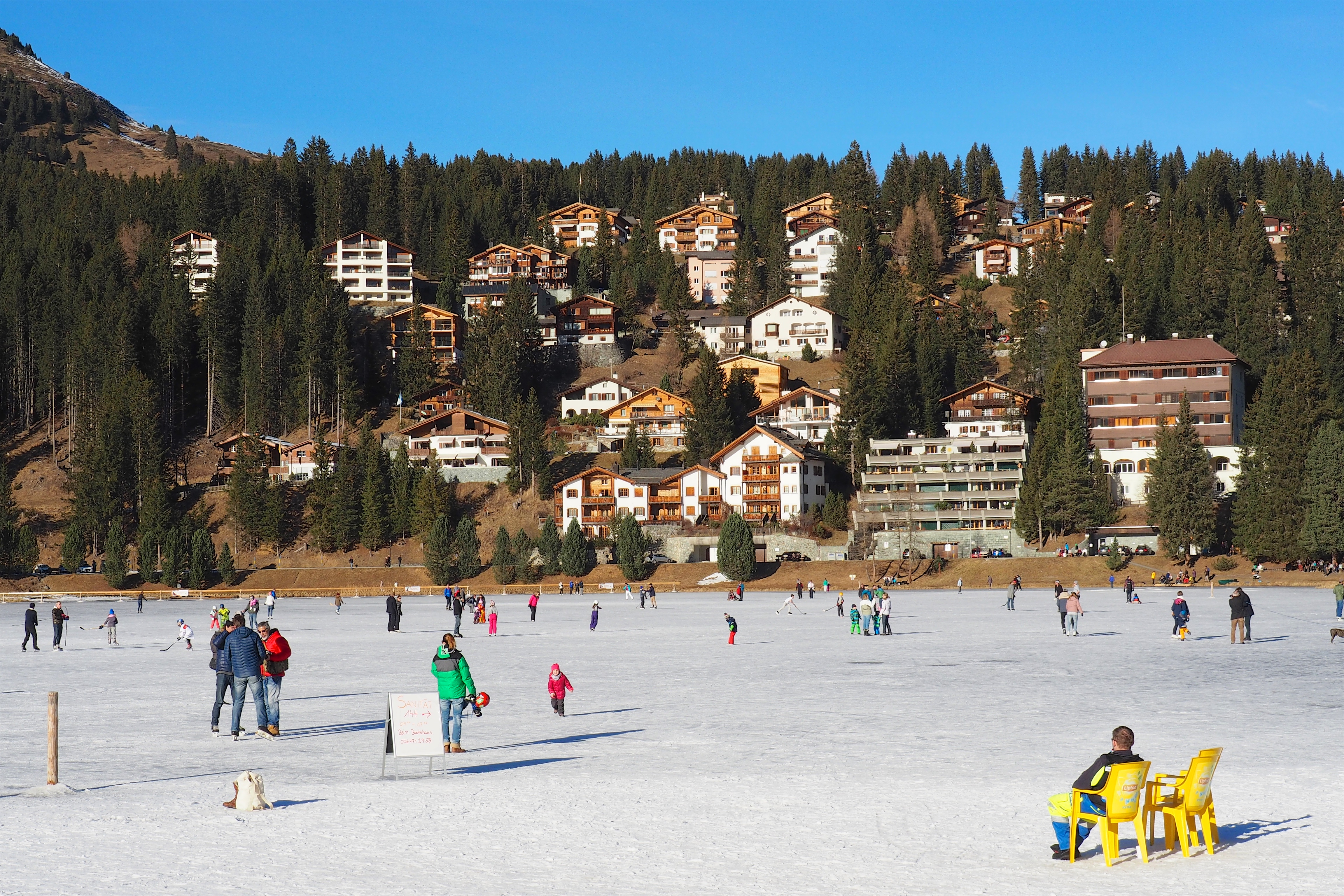 Ice skating on Lake Obersee, Arosa/Switzerland, December 2015